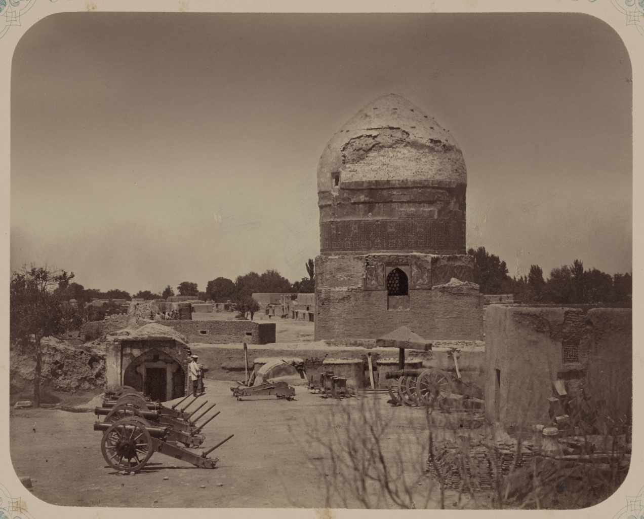 This photograph of a mausoleum at the Bukhara emir’s palace in Samarkand (Uzbekistan) is from the archeological part of Turkestan Album. The six-volume photographic survey was produced in 1871-72 under the patronage of General Konstantin P. von Kaufman, the first governor-general (1867-82) of Turkestan, as the Russian Empire’s Central Asian territories were called. The album devotes special attention to Samarkand’s Islamic architectural heritage. At the center of this view is a mausoleum dedicated to the spiritual leader Sheikh Nuredin Basir. Although lacking the complexity of 15th-century centralized mausoleums such as Rukhabad, this structure achieves monumental form with the design of its high dome, supported by a double construction on the interior. Despite clearly visible damage to the tile surface of the dome, the cylinder supporting it is in good condition, with a large ceramic inscription band intact. The mausoleum is located near the palace of the emirs of Bukhara, who ruled Samarkand after the expulsion of the Timurids in the early 16th century. The palace was referred to as “Kok Tash” after the throne of (Timur) Tamerlane, who built a citadel in Samarkand. Of special interest in this photograph is the row of cannons and the Russian guard (in white tunic), an indication of the capture of Samarkand by Russian forces in 1868. Cannons; Domes; Islamic architecture; Photographic surveys; Sepulchral monuments; Tombs